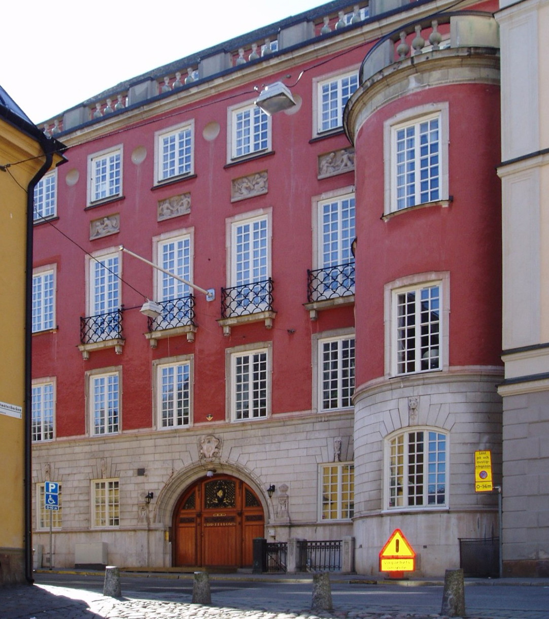 Banérska palatset, Stockholm